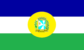 Flags of the city of Caputira, Minas Gerais, Brazil.